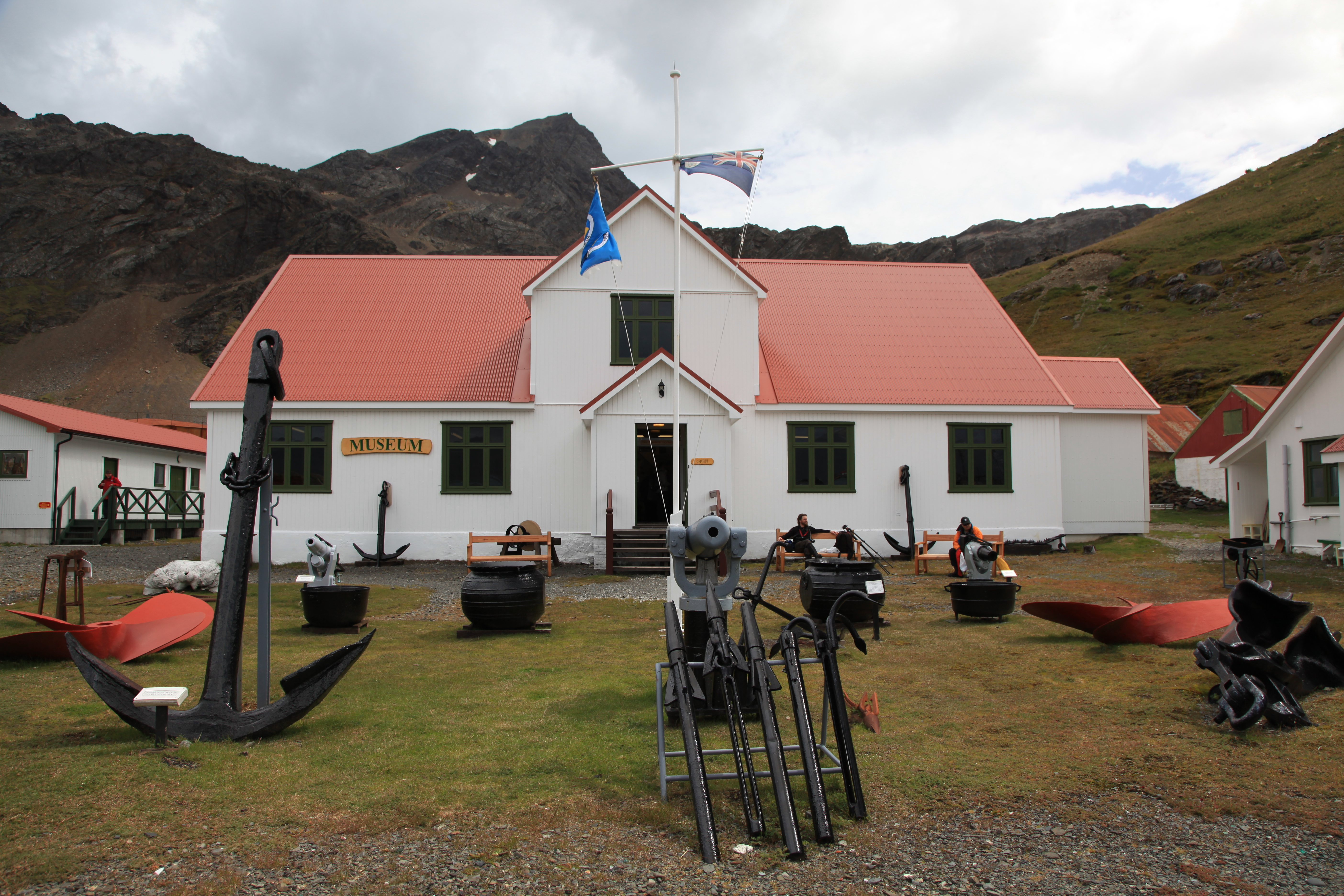 South Georgia Museum in Grytviken